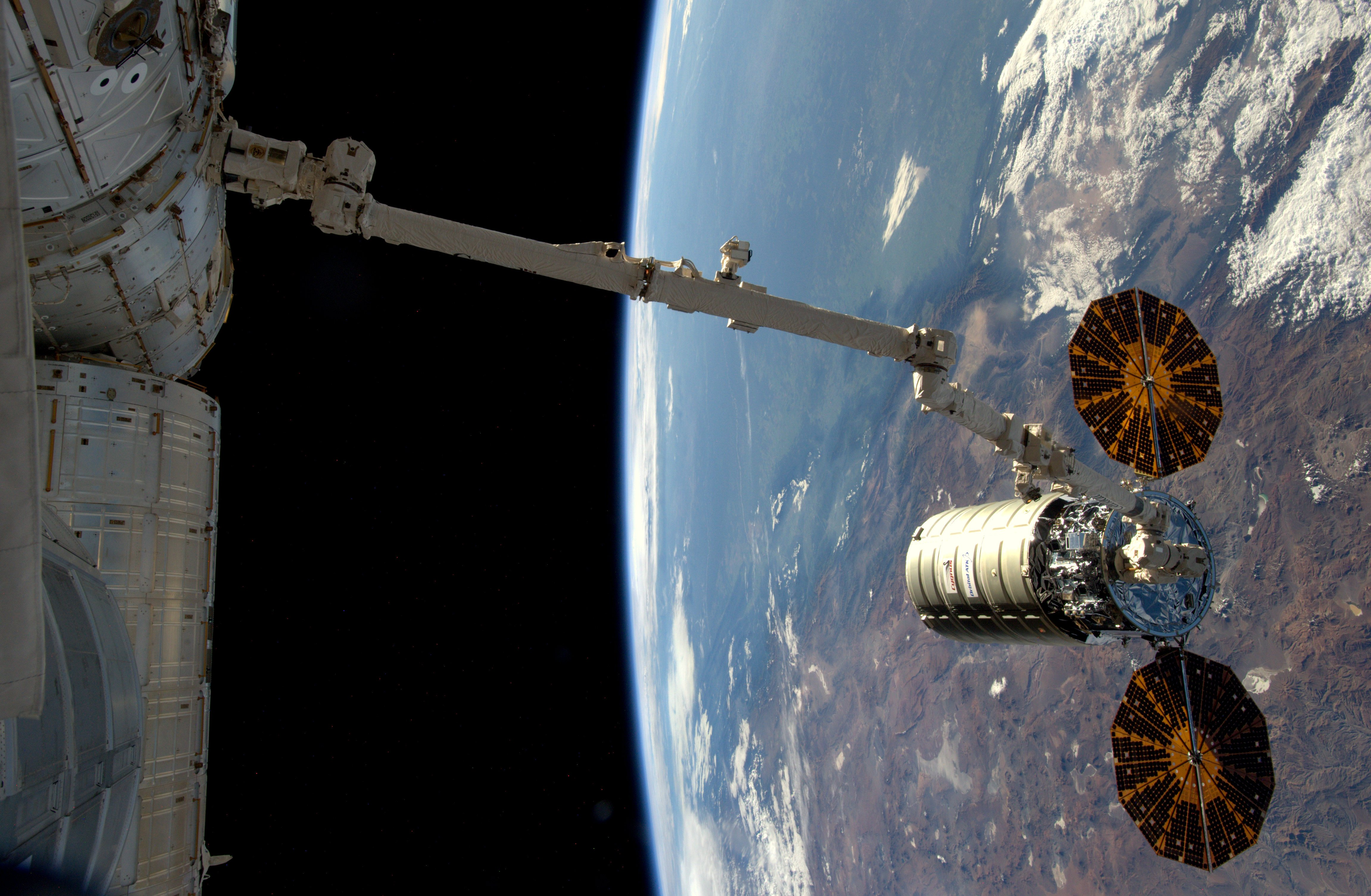 Cygnus 5 (S.S. Deke Slayton II) being prepared for release from Canadarm2 at the end of its mission.